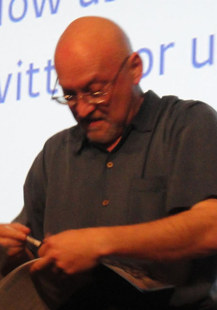 Frank Darabont at the PaleyFest 2011 - The Walking Dead panel